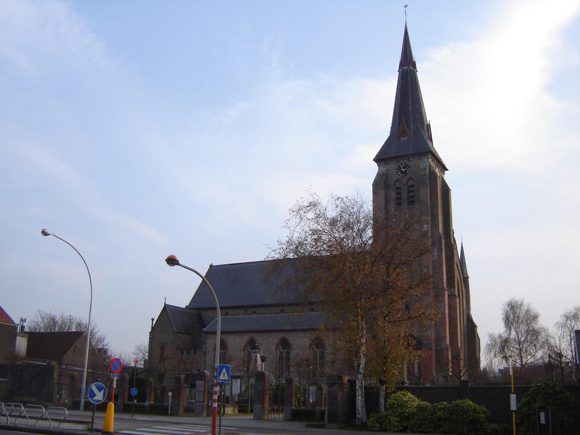 Church of Saint Andrew and Saint Anne in Sint-Andries. Sint-Andries, Brugge, West Flanders, Belgium.